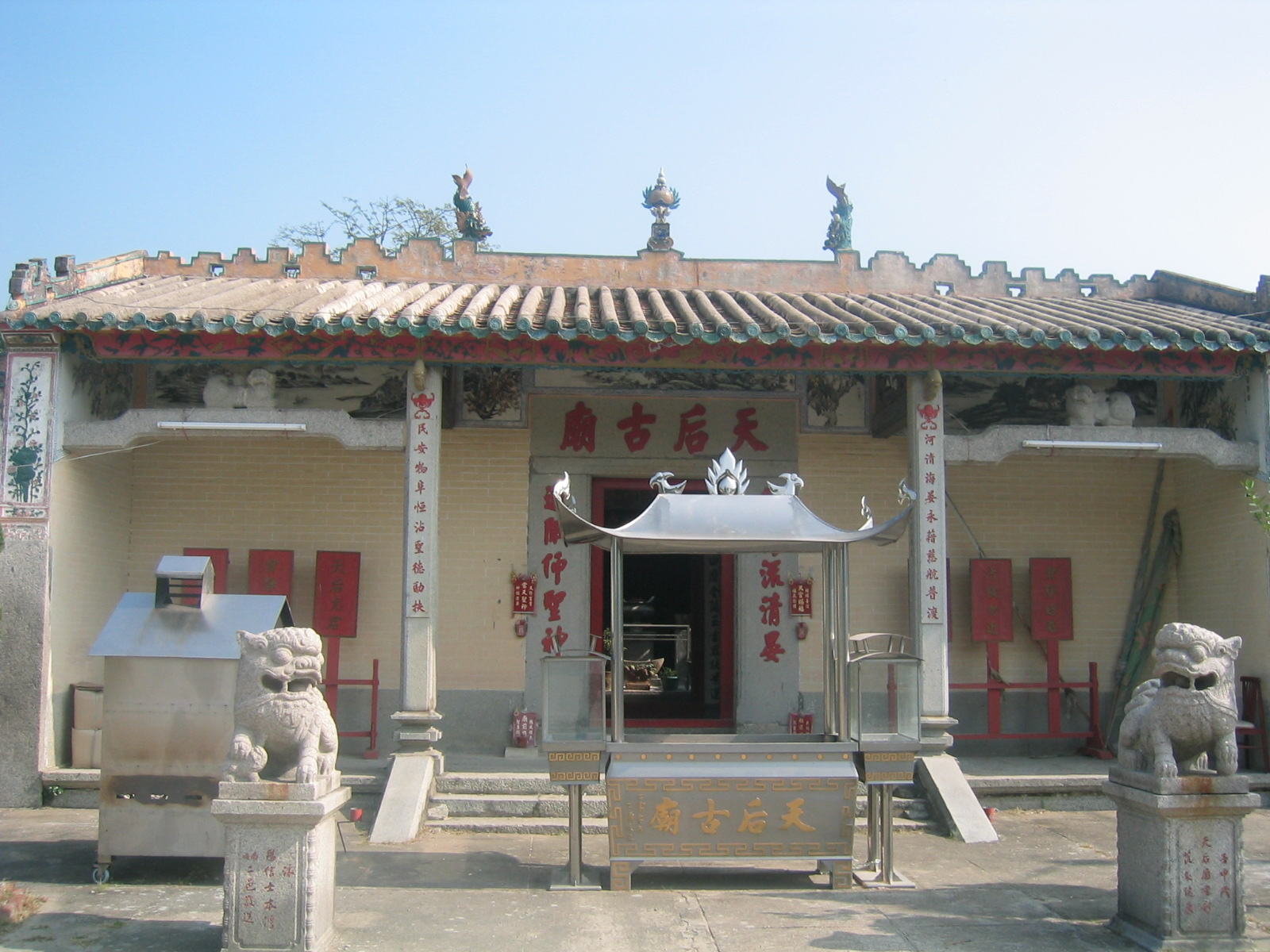 Temple of Tianhou (Matsu) in Coloane, Macau